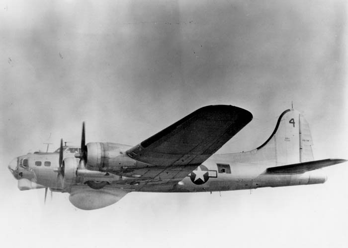 A U.S. Navy Boeing PB-1W (BuNo 77230) early warning plane of experimental squadron VX-4 in-flight, circa 1947.